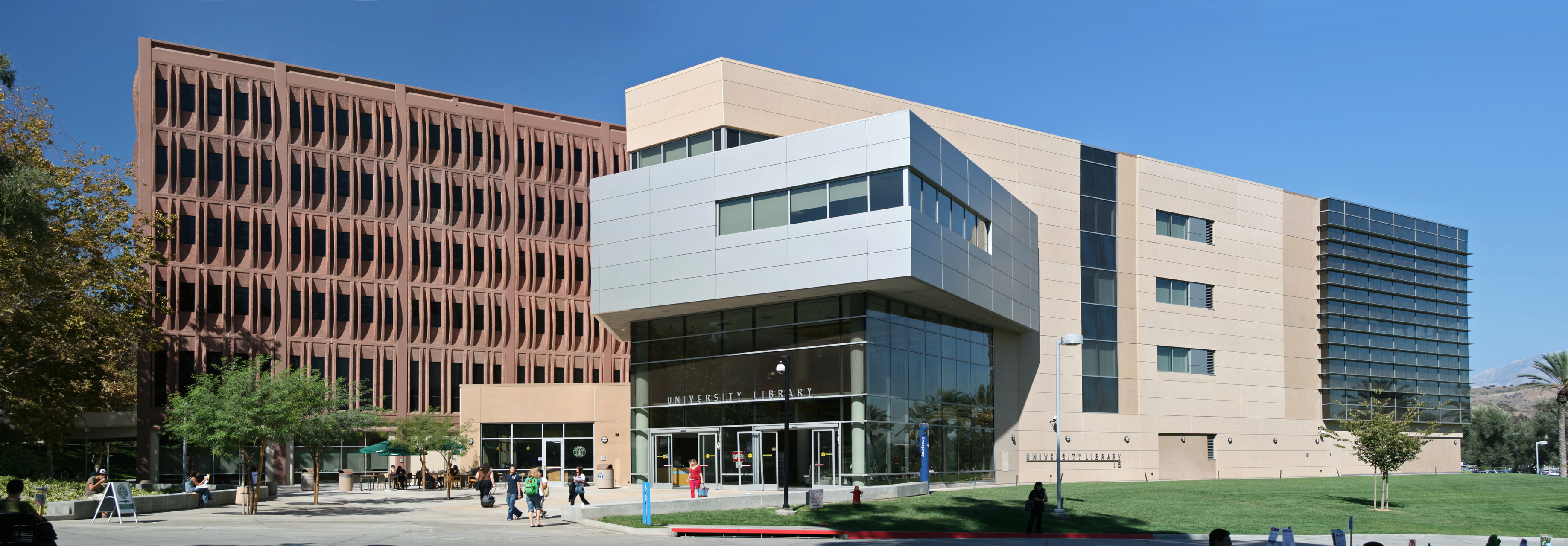 The main entrance of the Cal Poly Pomona University library shortly after renovations were officially finished.